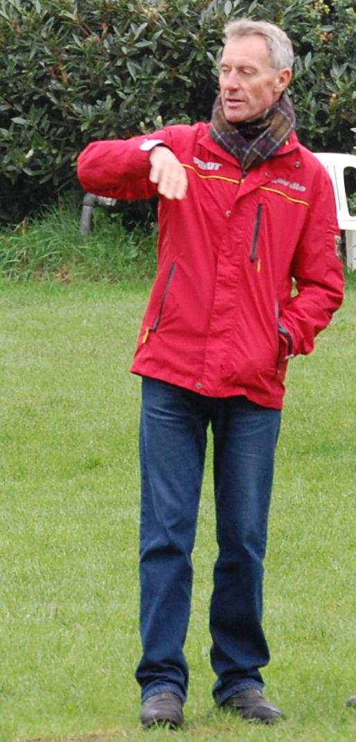 Christopher Bartle at the 2013 German eventing championships.